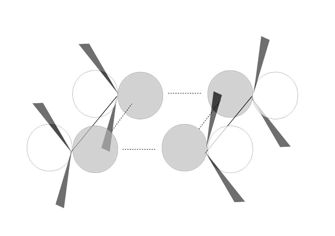 sigma-bishomo orbital overlap